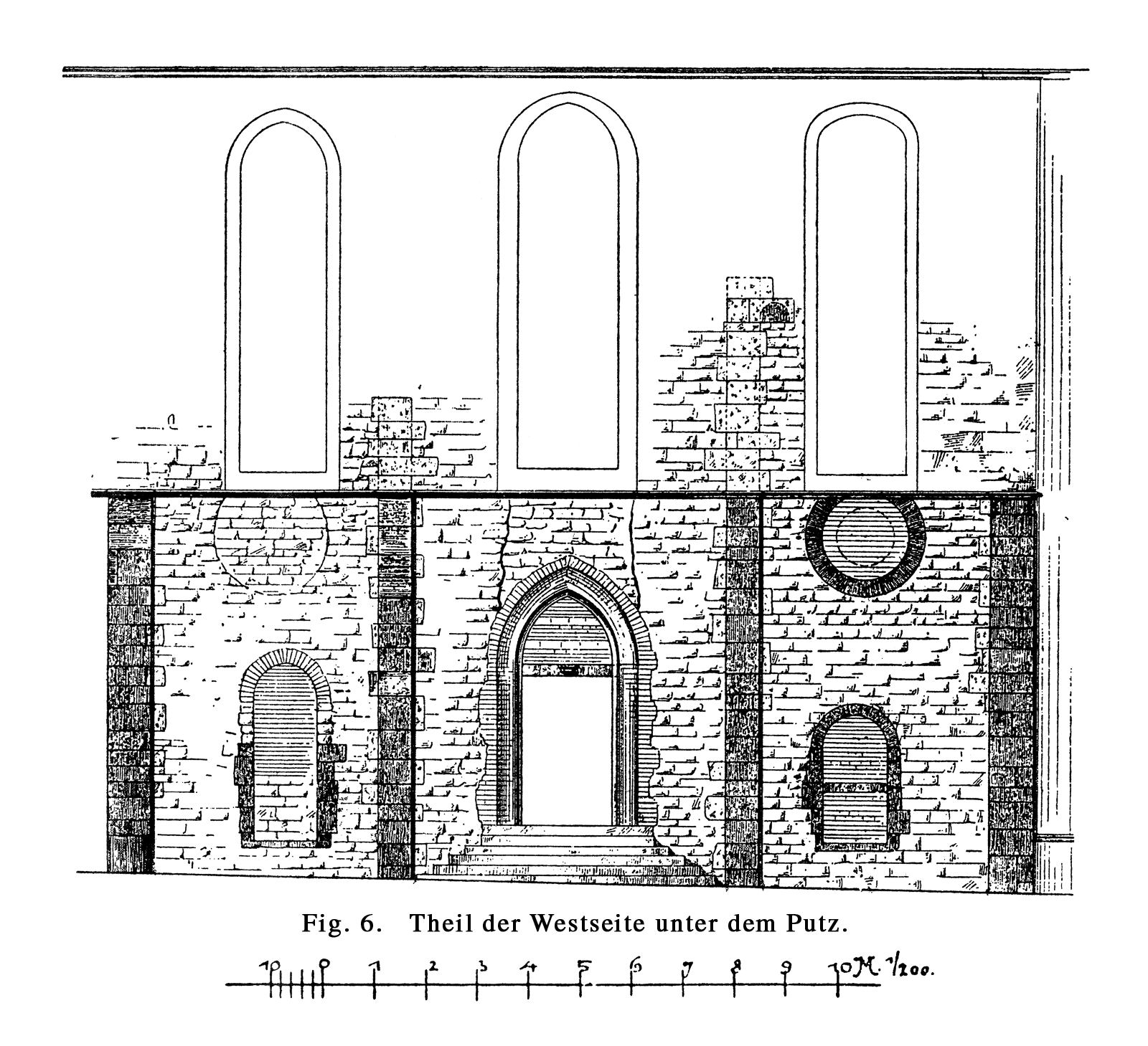 Frankfurt on the Main: Leonhardskirche (Leonard's church), partial oversize of the west side with elements under the plaster